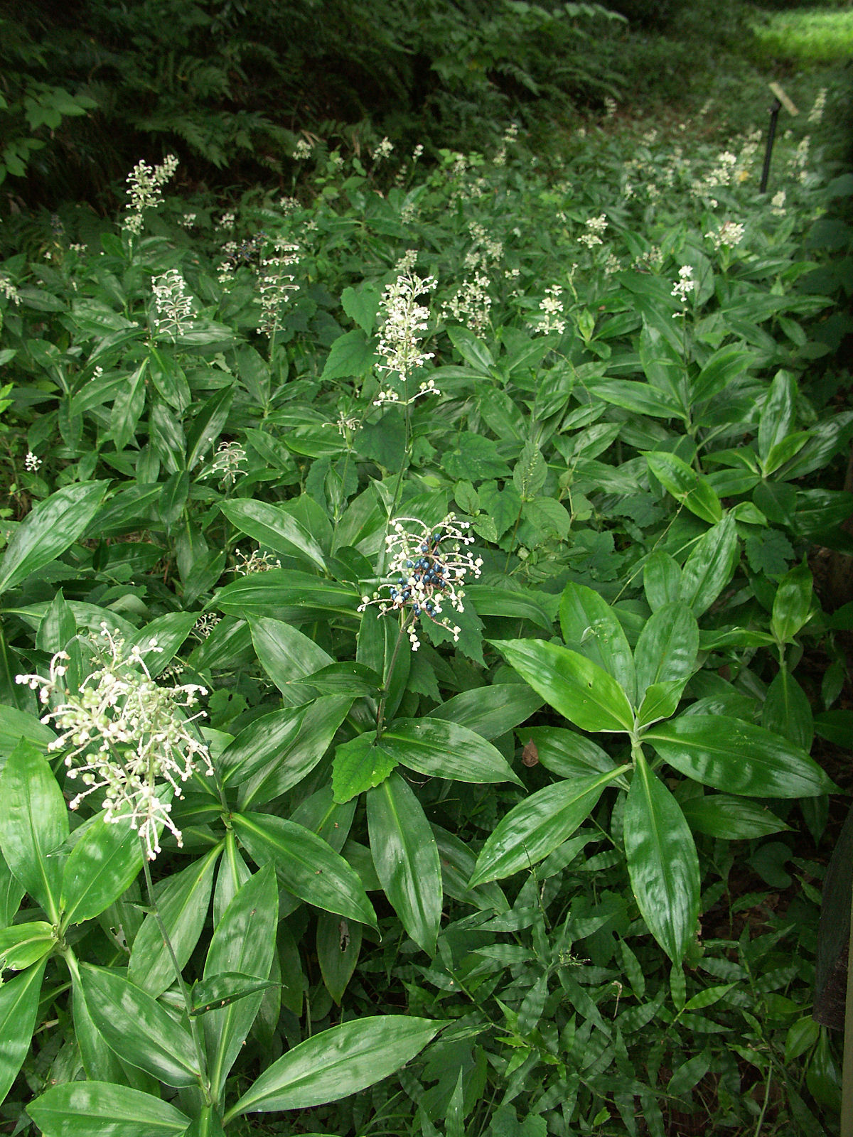 gregariously w/flower